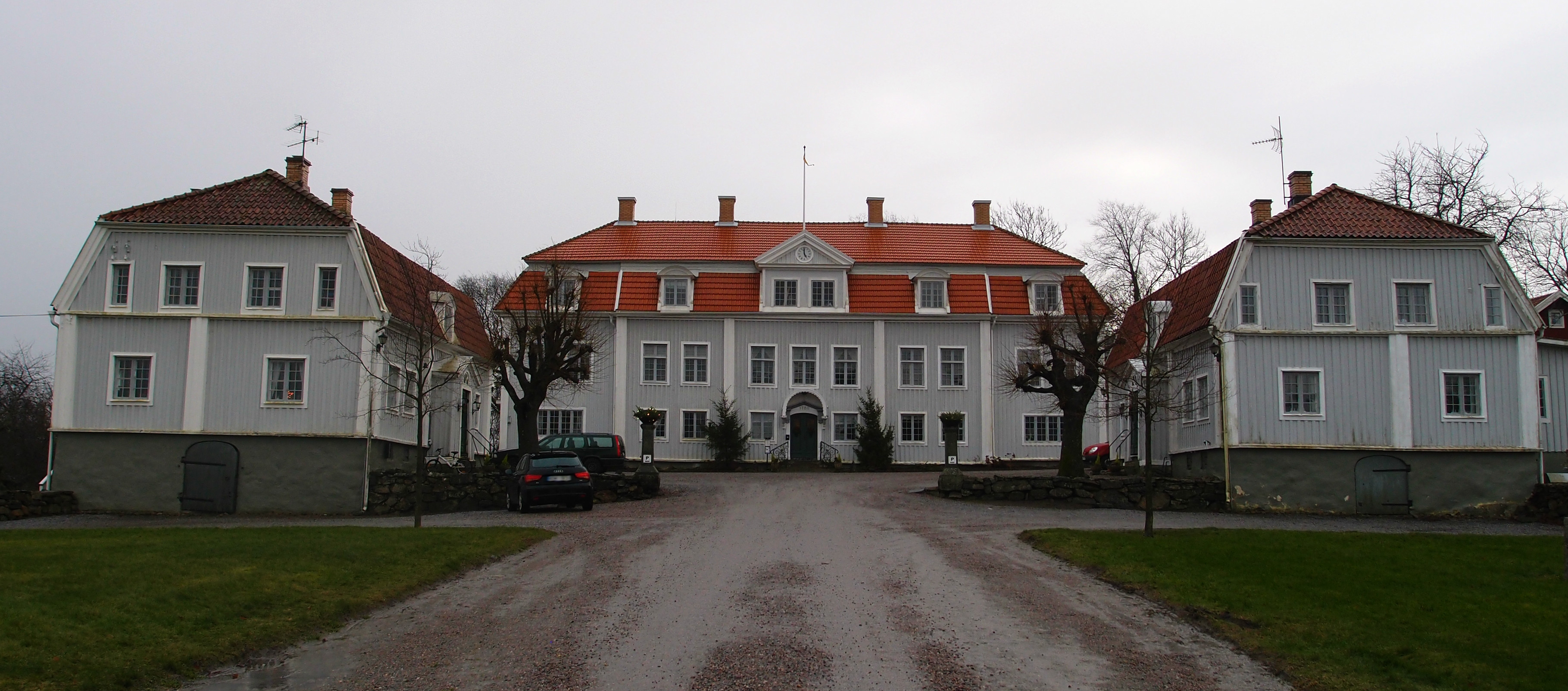 Tofta Mansion